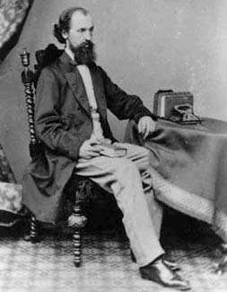 Thomas Archer Hirst